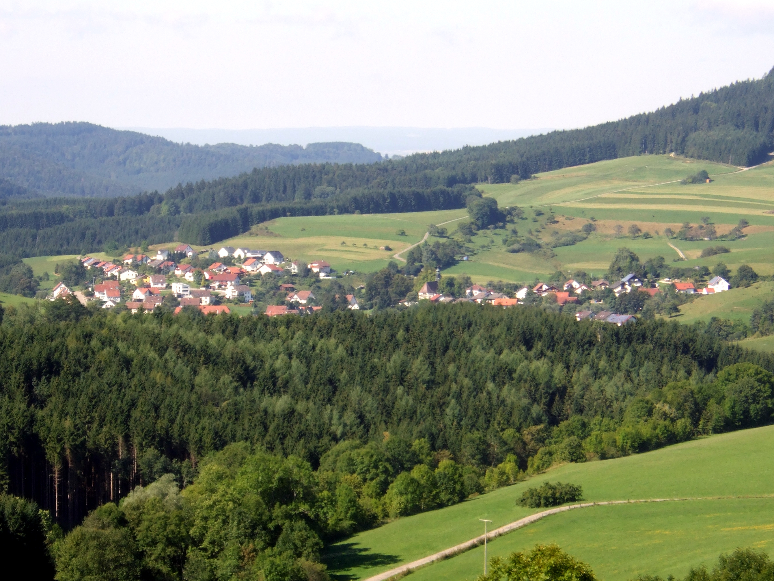 Hausen am Tann (view from the east) with the Black Forest silhouette on the horizon